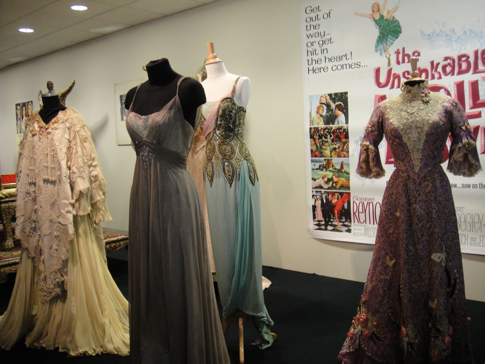 Costumes and poster from The Unsinkable Molly Brown at the Debbie Reynolds Auction Breaks Up Historic Hollywood Collection (The Paley Center for Media in Beverly Hills, Los Angeles, CA, USA).